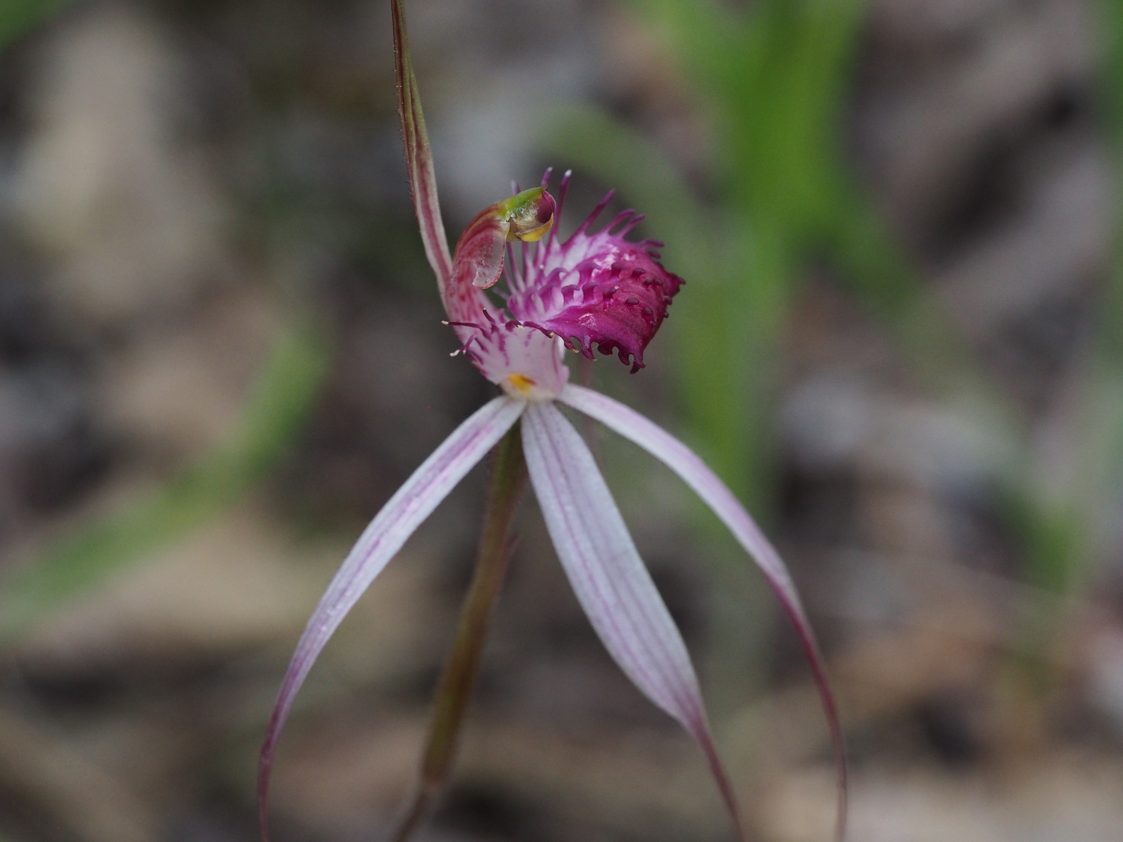 Caladenia gardneri growing along Milyeannup Coast Road, near Augusta, Western Australia